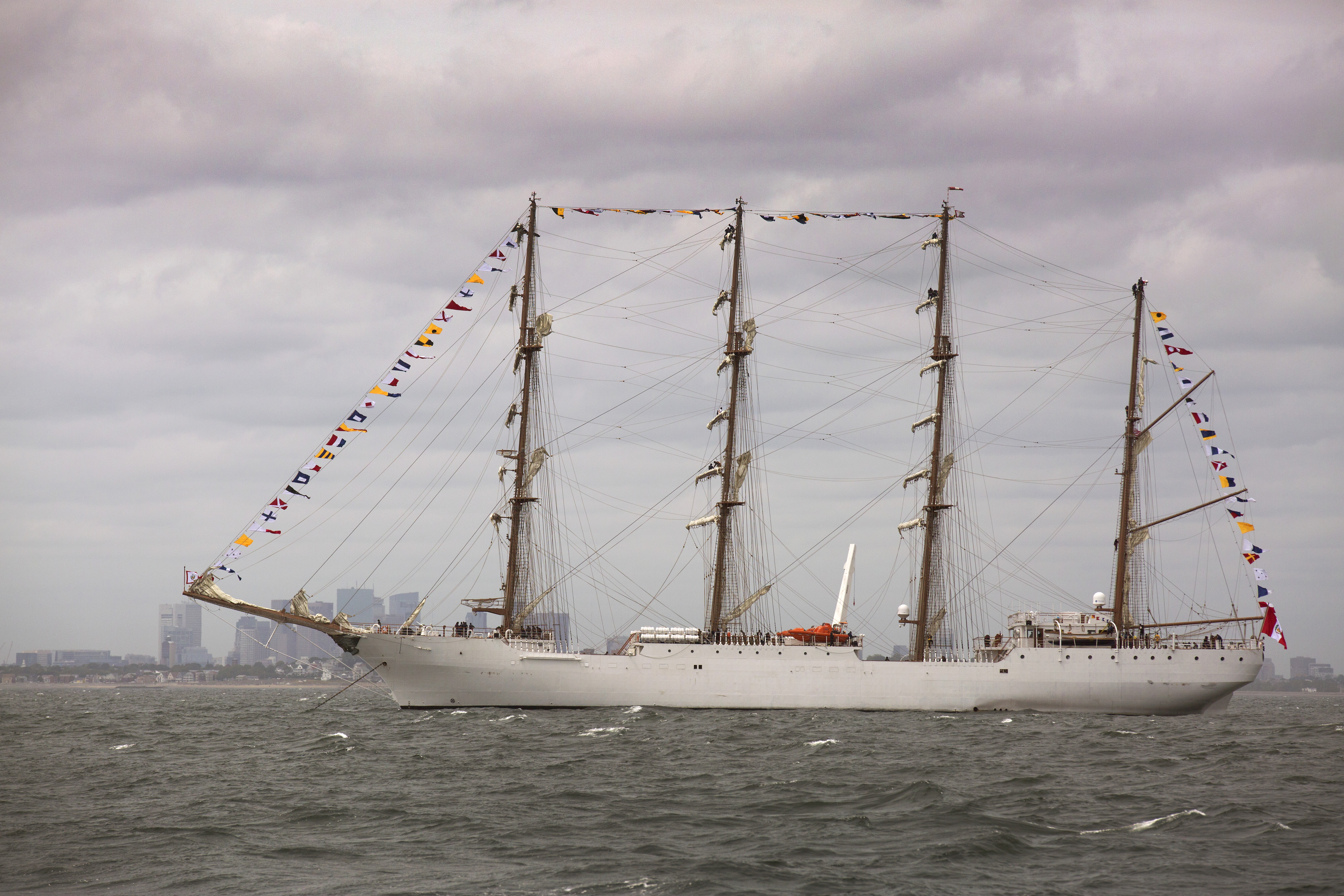 Officers with the U.S. Customs and Border Protection, Office of Field Operations, board a flotilla of tall ships off the Coast of Boston, Massachusetts, to conduct customs inspections of the visiting vessels and crews as the ships arrive for the Sail Boston 2017 event, June 16, 2017. U.S. Customs and Border Protection Photo by Glenn Fawcett